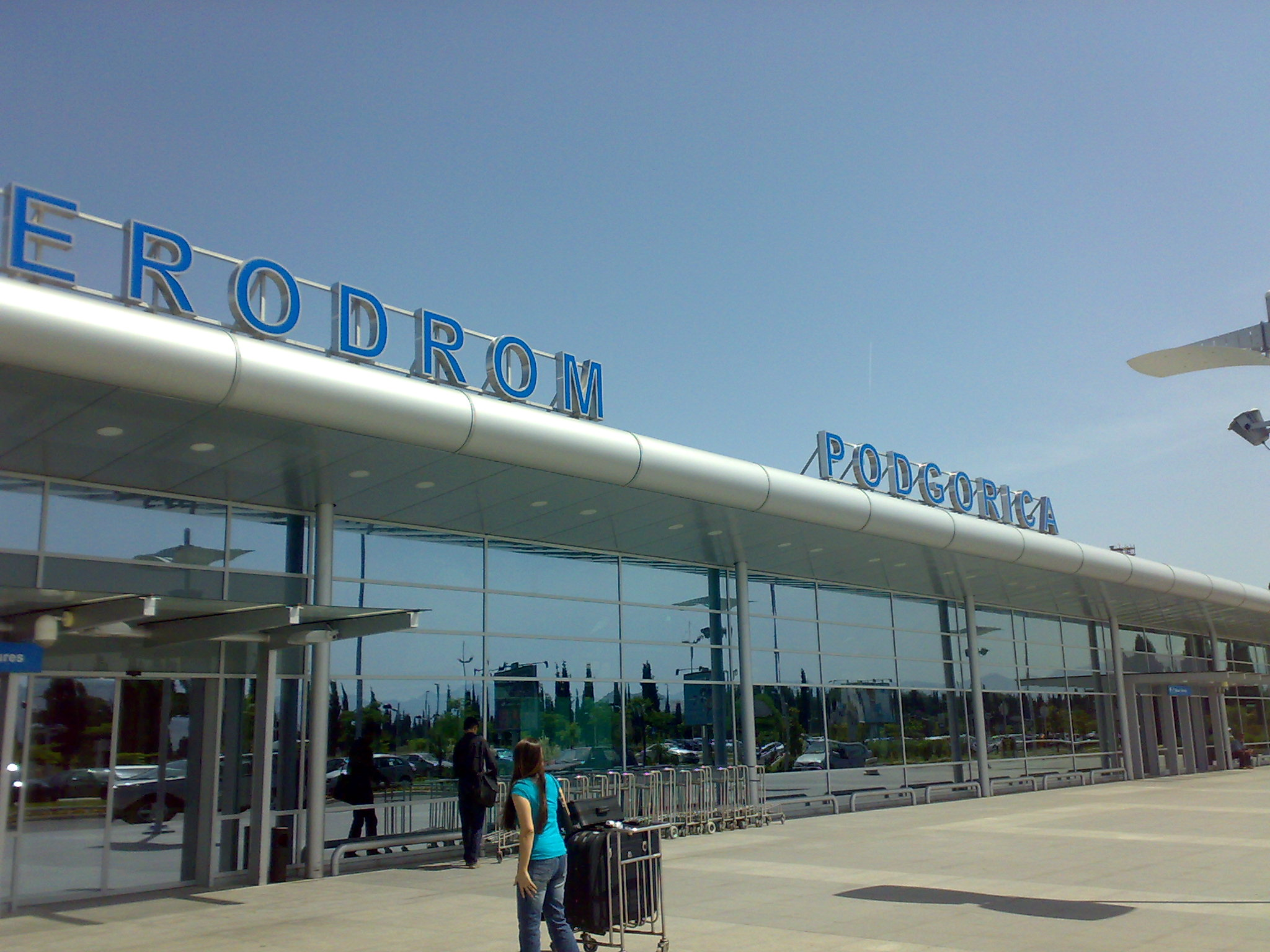 Aerodrom Podgorica